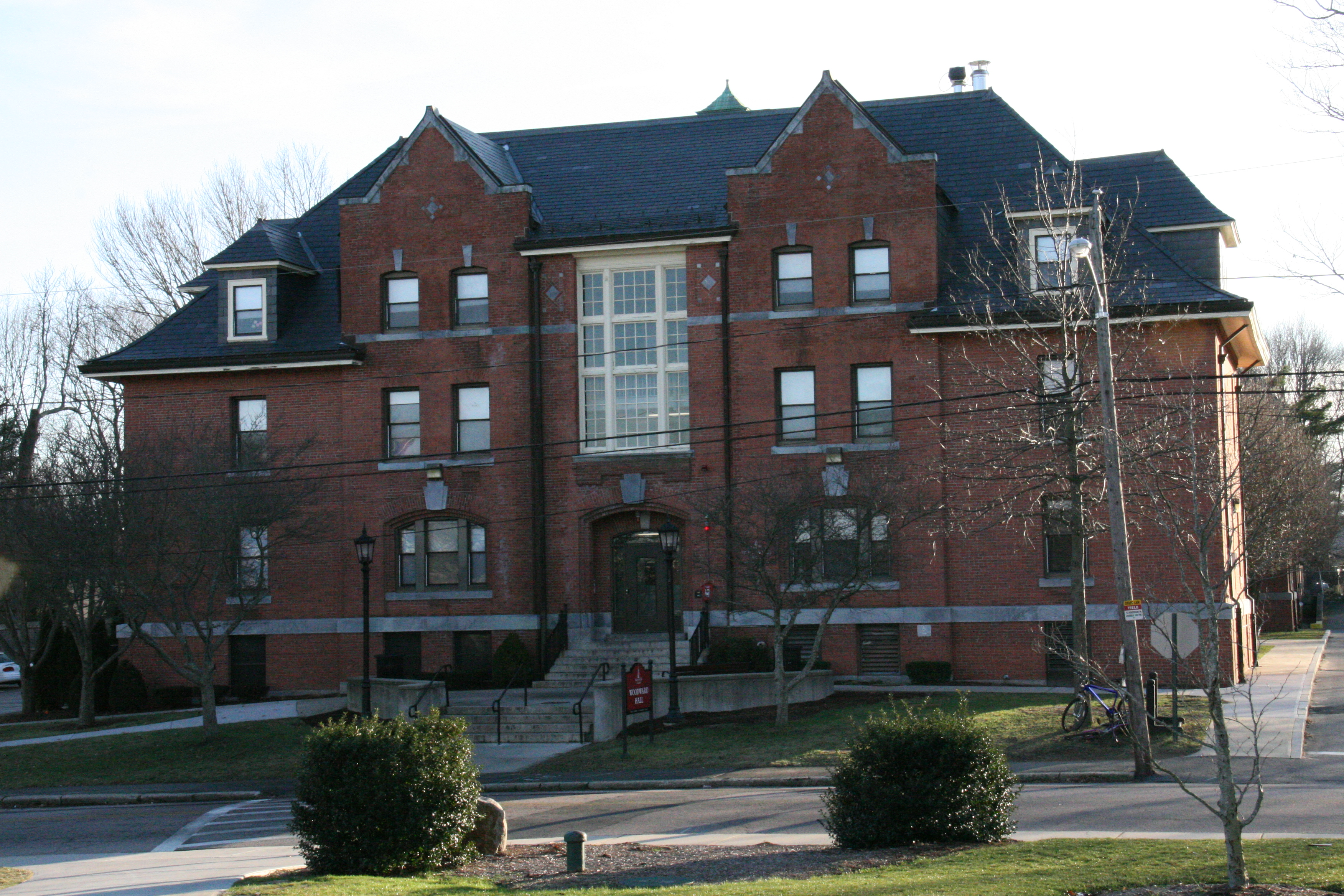 Bridgewater University 115 Grove St. Bridgewater Ma.